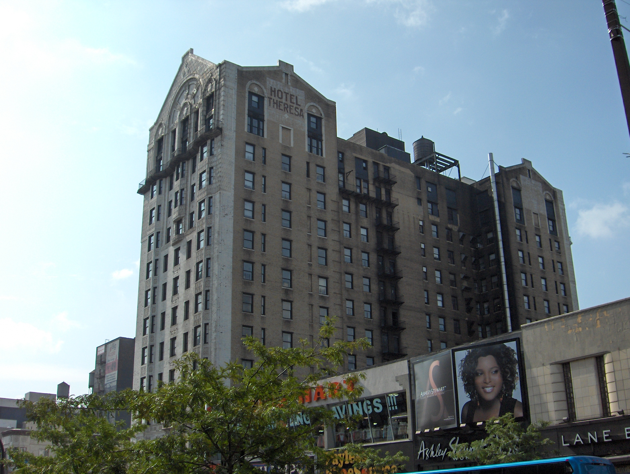 View of a building in a street of Harlem